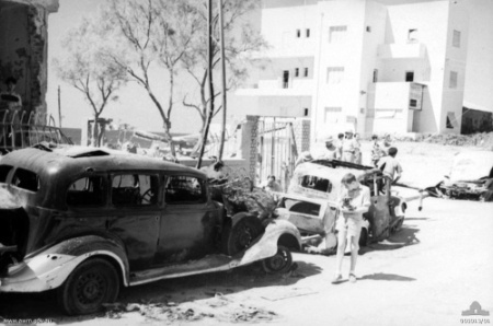 A local civilian carrying his small dog (right) inspects the damage to one of the vehicles as a result of a bombing of the city of Tel Aviv